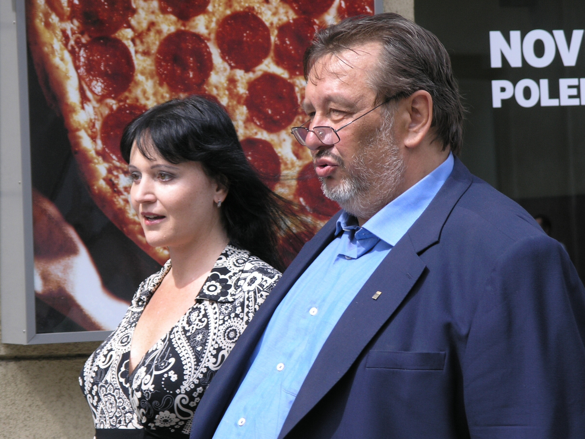 ODS politicians Andrea Češková and Milan Jančík (mayor of Prague 5)